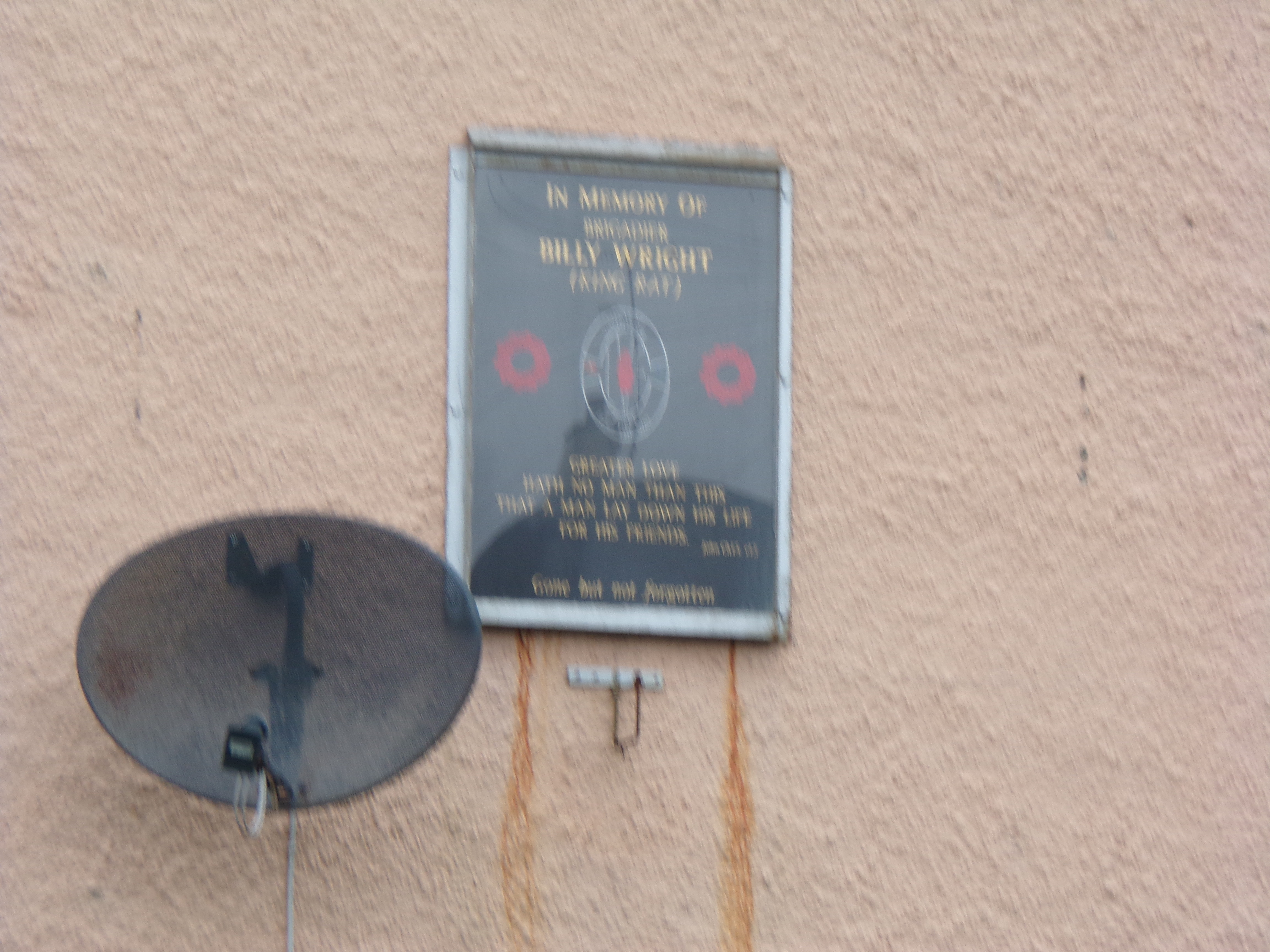 A memorial to loyalist leader and paramilitary Billy Wright in Eastvale Avenue, Dungannon.